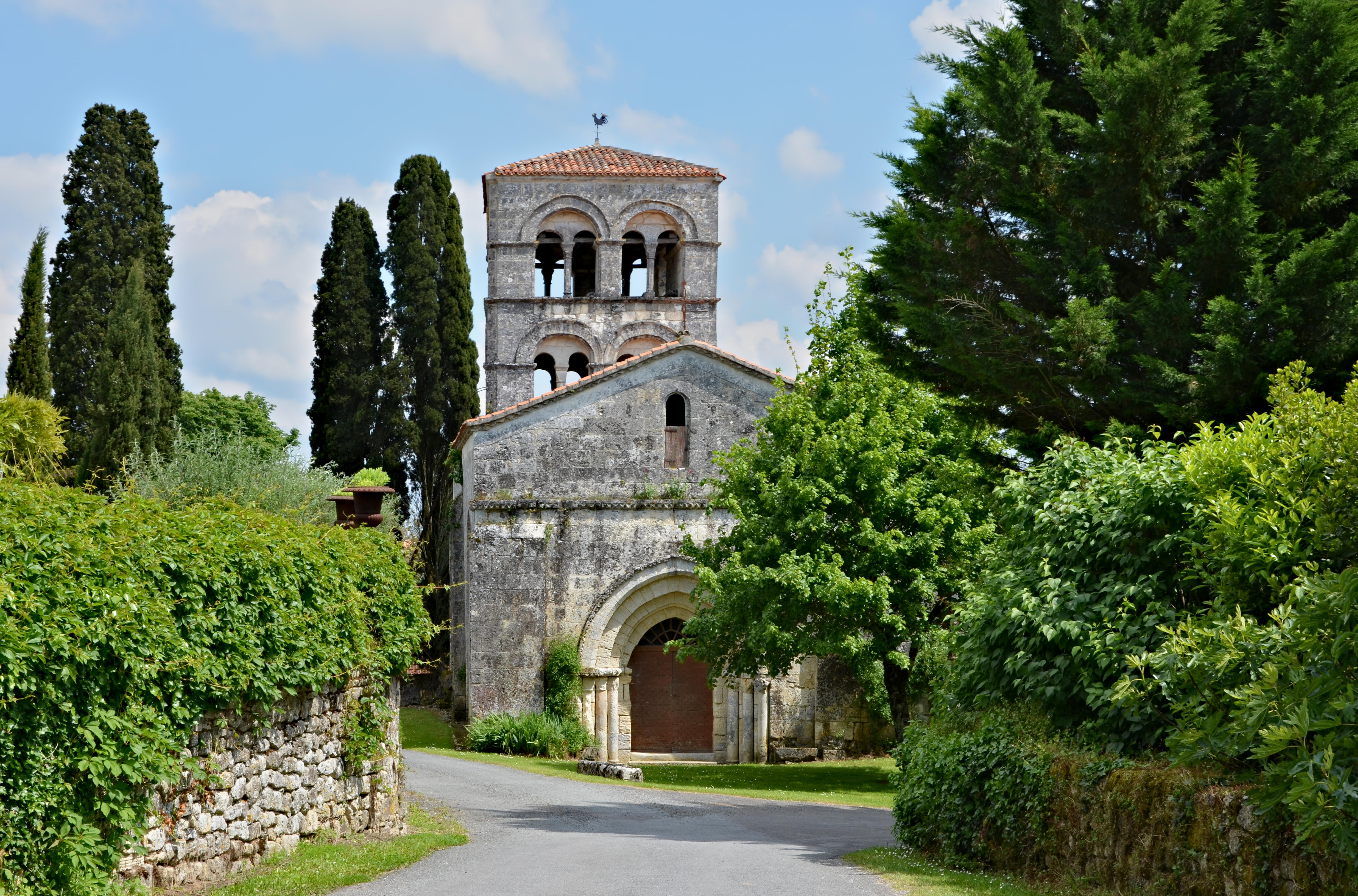 Street leading to the village church (11th-15th centuries), Édon, Charente, France. .